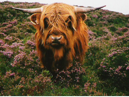 Highland cattle, Toska, Norway Norsk (bokmål): Higlandokse på Toska; Høglandsfe i lynghei nord på Toska; Høylandsfe lynghei radøy